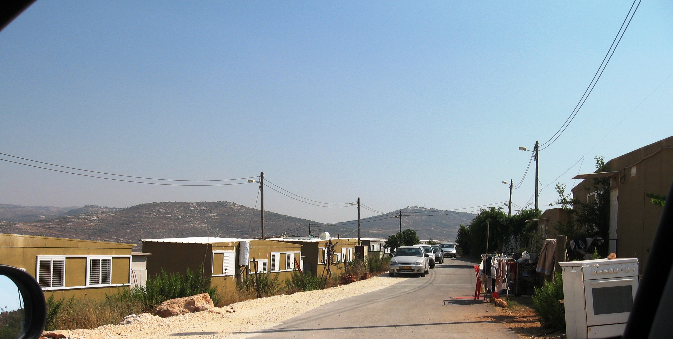 nofe nechemia the center of the outpost